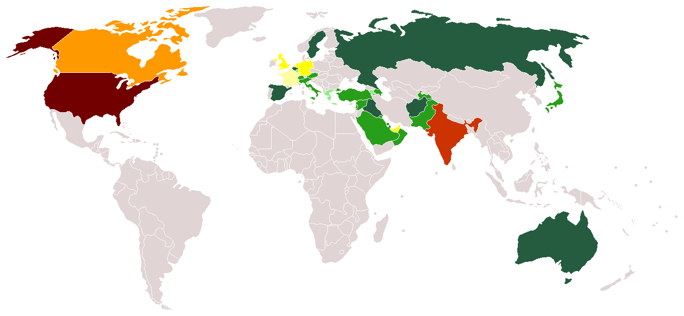 Iranian Diaspora Population map. In thousands of people 1 10 50 150 250 - 300 700 2000 2500 No data available Note : For India, without the Parsis, the figure would be 10 to 20 thousand people.